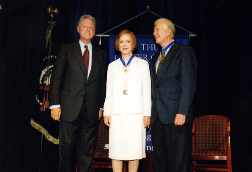 Jimmy and Rosalynn Carter receiving the Presidential Medal of Freedom from former president Bill Clinton.